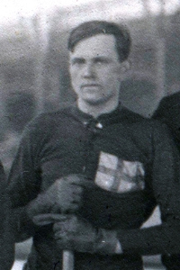 Einar Svensson with the swedish national ice hockey team at the 1920 Summer Olympics in Antwerp, Belgium. The picture is a crop out of a larger team photo taken inside the ice rink Palais de Glace d'Anvers. The ice hockey tournament at the 1920 Summer Olympics took place between April 23 and April 29.